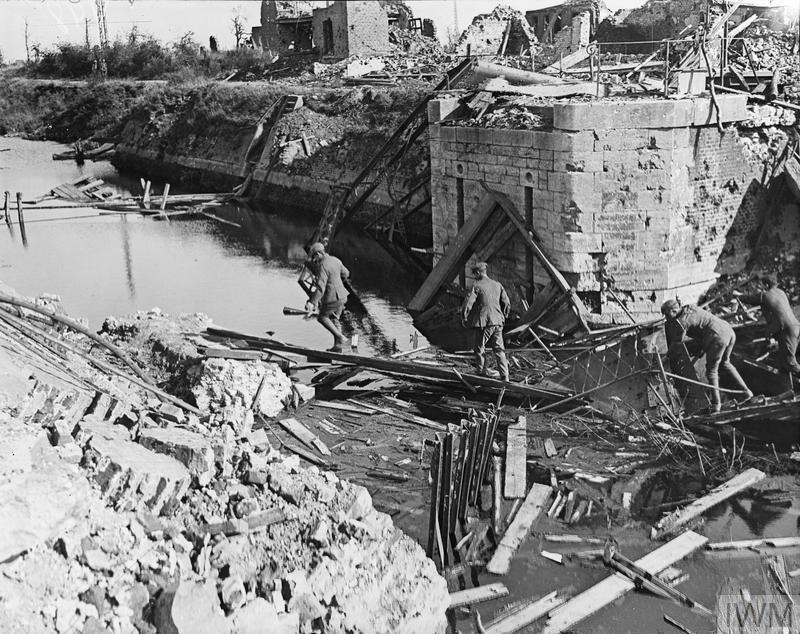 Bridge across the Canal at La Bassee, blown up before German retirement, 4 October 1918. The town was taken over by the 2/5th Battalion, Lancashire Fusiliers (55th Division) previous afternoon.